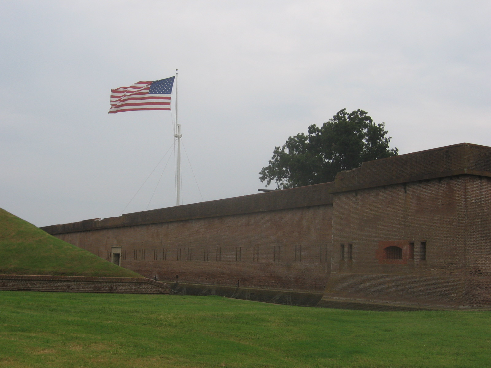 Exterior of Fort Pulaski: Taken by me August 2007